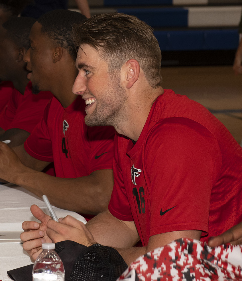 Danny Etling, Atlanta Falcons quarterback, converses with fans during a team meet-and-greet at the Bryant Fitness Center, Oct. 8, 2019, at Luke Air Force Base, Ariz. Etling and his teammates, met with and signed memorabilia for Luke Airmen and their families. Thirteen Falcons, who will play the Arizona Cardinals Sunday, visited Luke to thank the military members and their families stationed here for their service to the country. (U.S. Air Force photo by Airman 1st Class Leala Marquez)